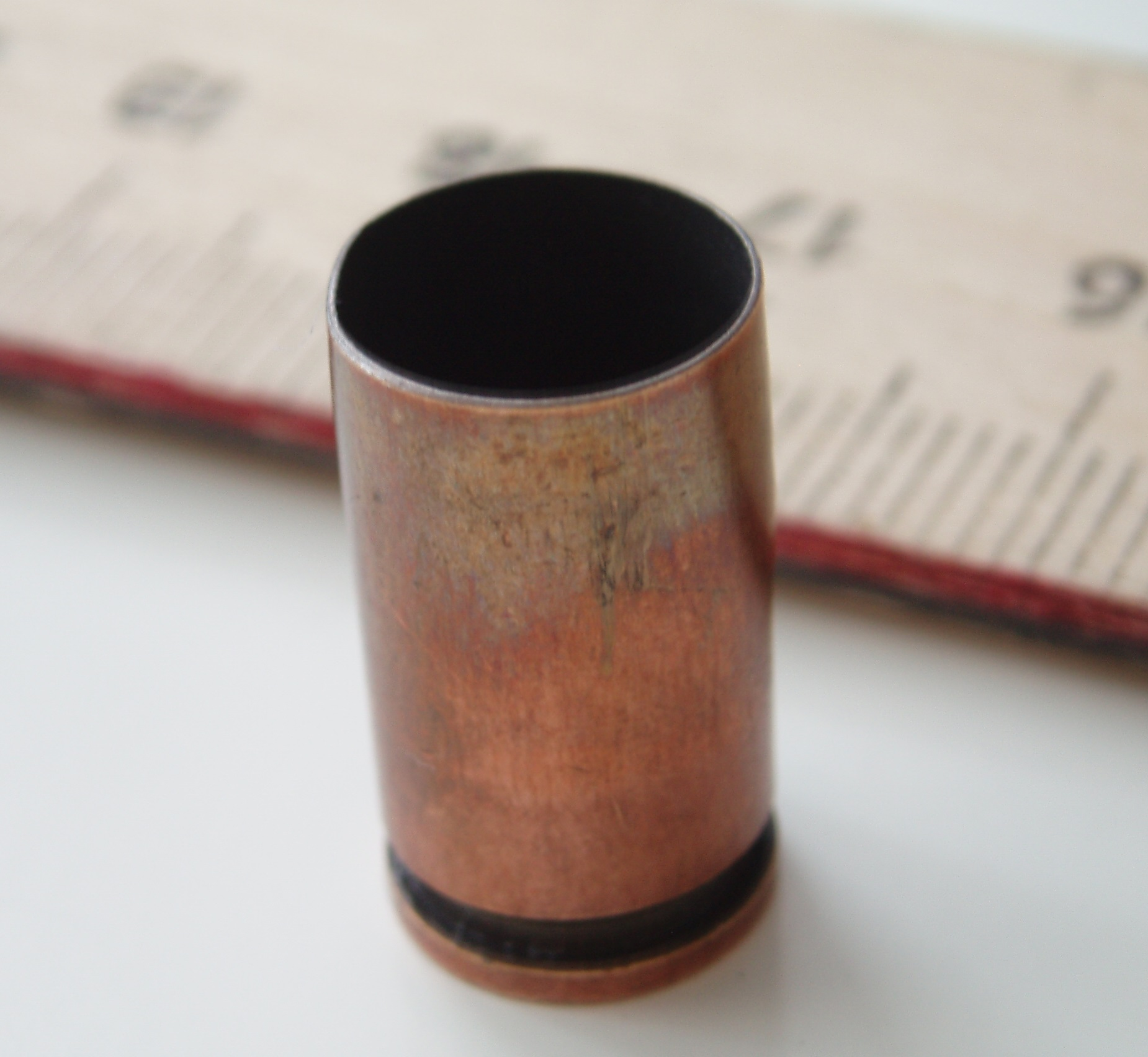 Casing of a 9x18 mm PM cartridge.